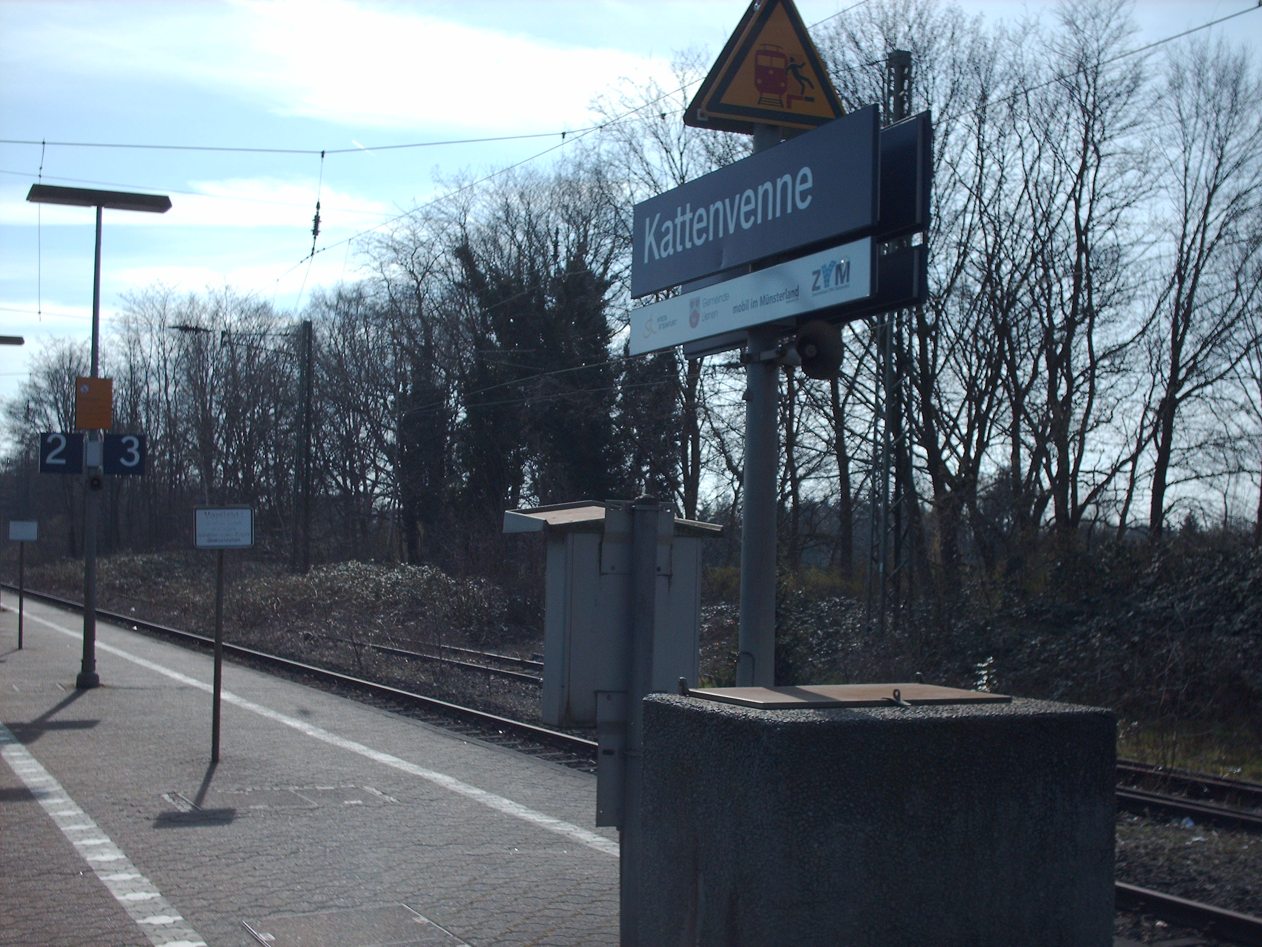 Kattenvenne station, Lienen, Germany check usage